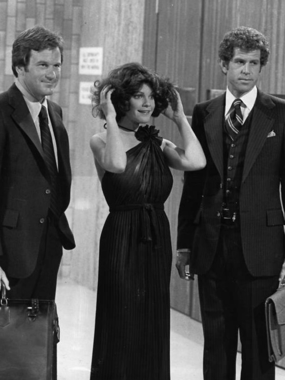 Publicity photo of (from left) Squire Fridell, Julie Cobb, and Tony Roberts in the premiere of Rosetti and Ryan.